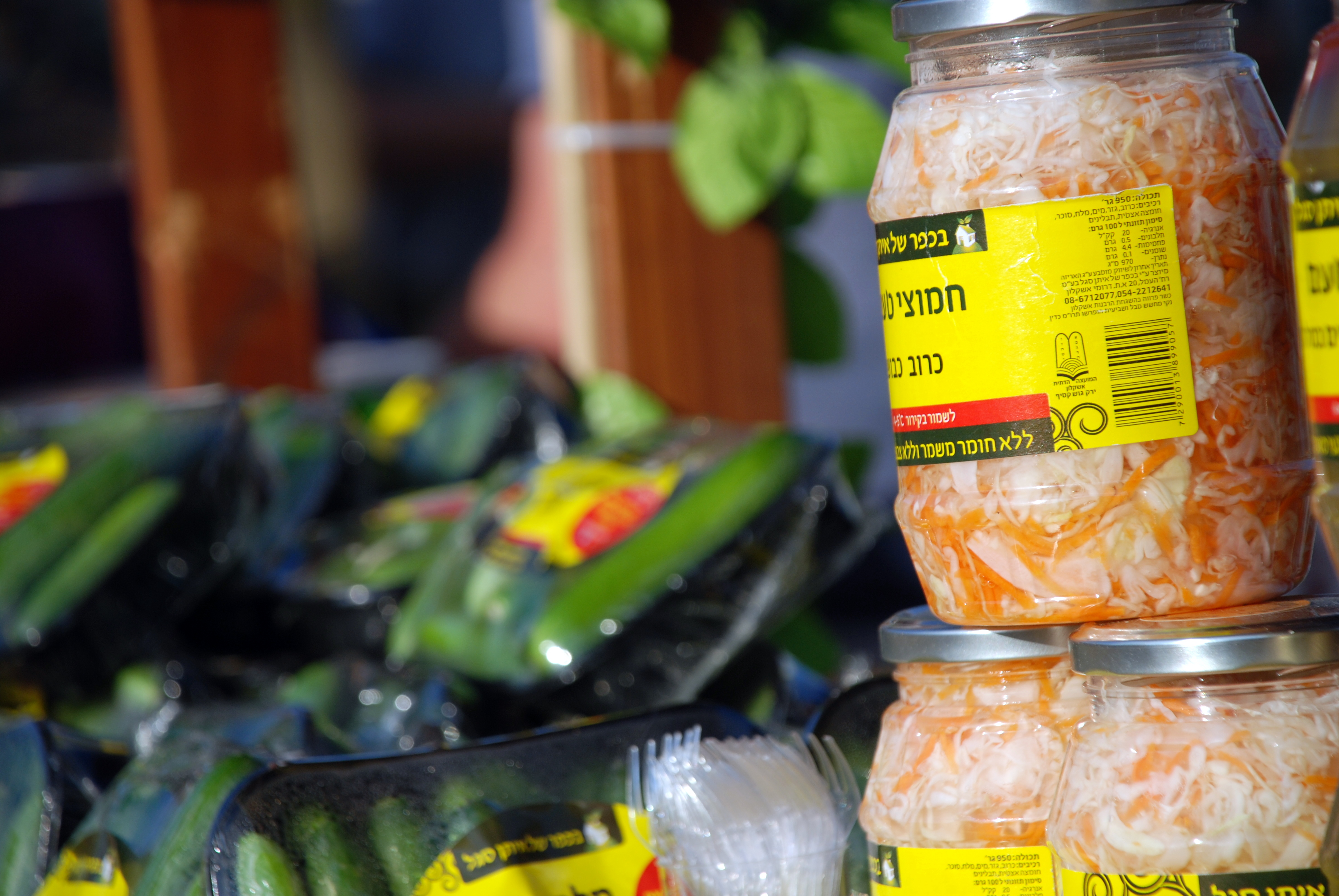 Sauerkraut and other food. Sale on the street in Israel